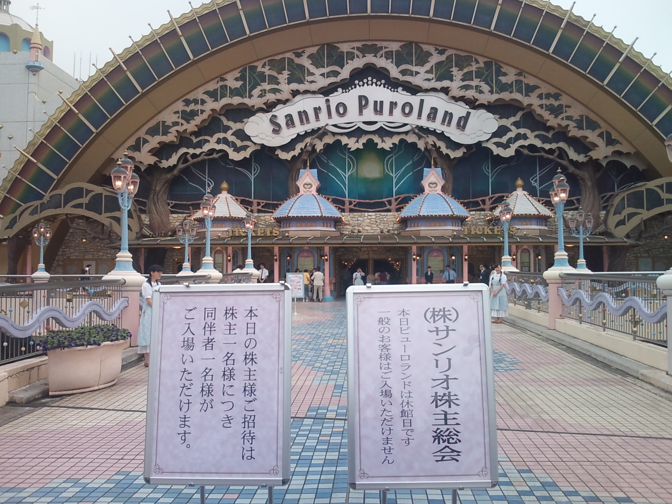 Sanrio Puroland Outside Sanrio Shareholders' meeting Special operations 2009. (The public are not admitted. Admission can be one shareholder and one guest.) Display signs are as follows; "SANRIO CO.LTD. shareholders meeting" Today is the day Puroland closing. Customers are not permitted in general. Today invites shareholders, each shareholder one, as there is one companion admitted.